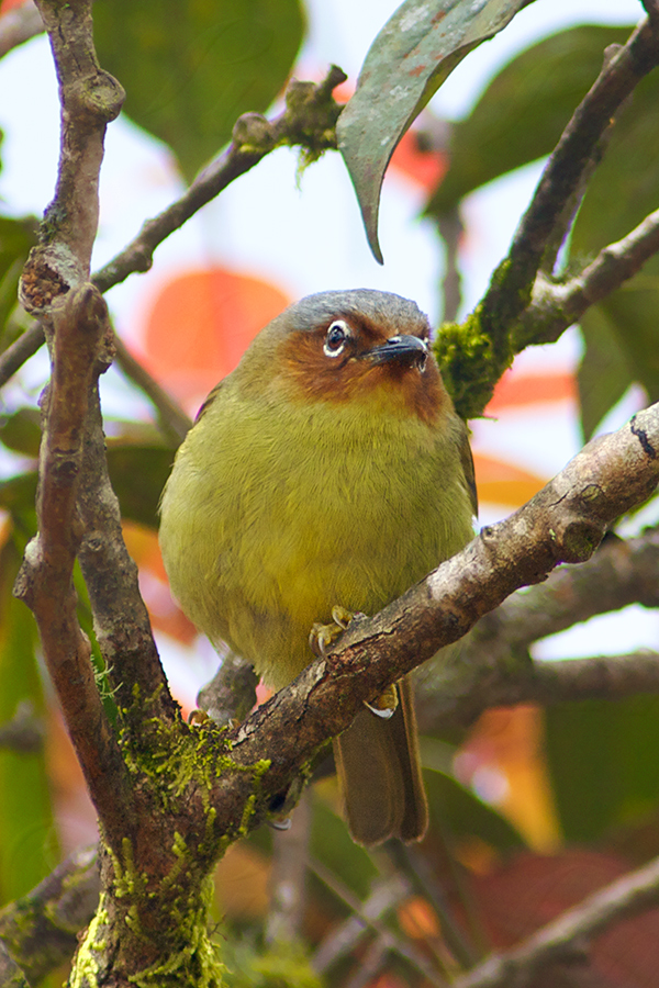 Photo of Philippine Endemic Bird found in Luzon Island. Taken at Mount Polis about 300 km north of Manila